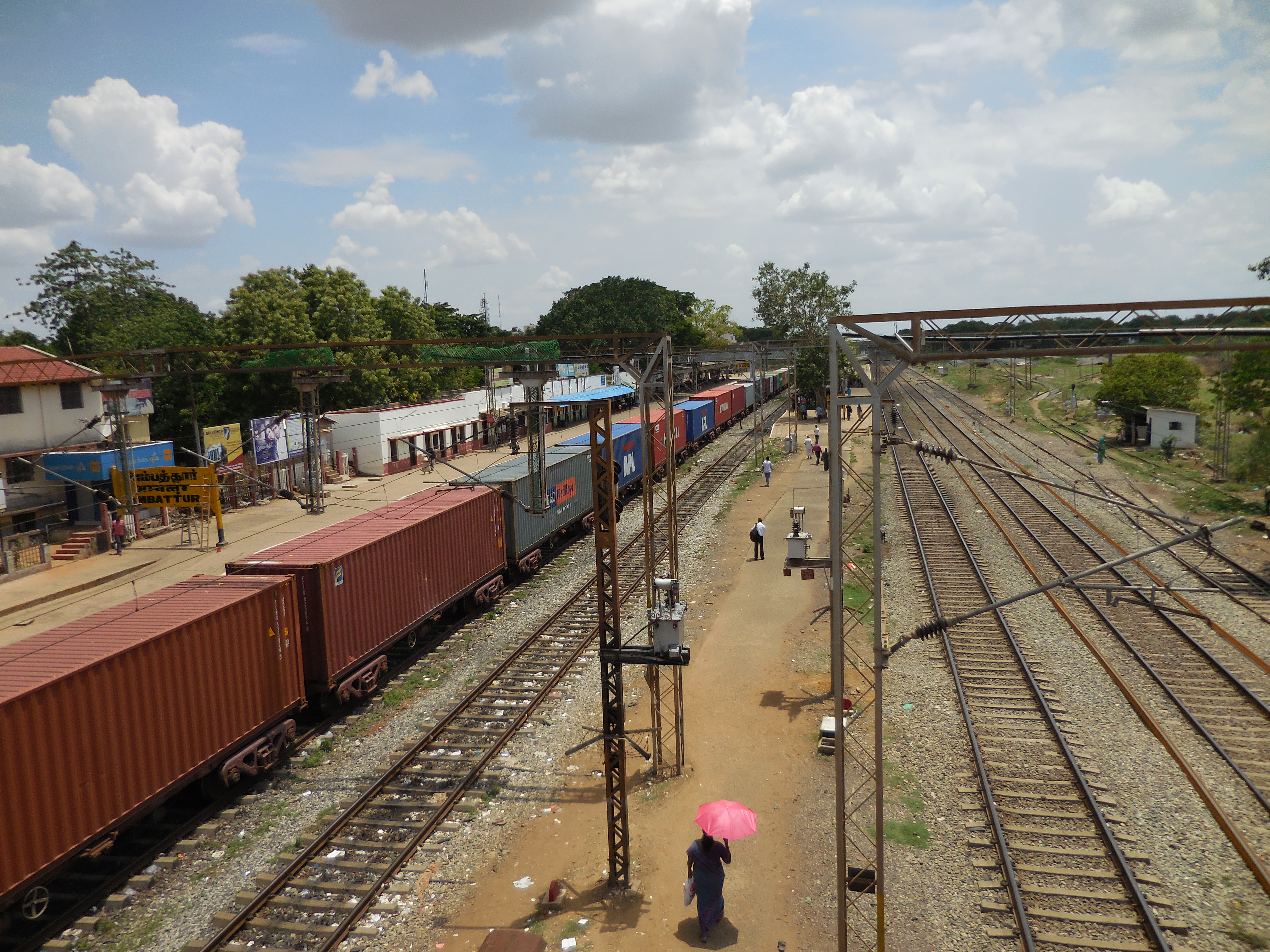 Chennai Ambattur railway station view1, taken on 5 July 2014, 12:42 pm